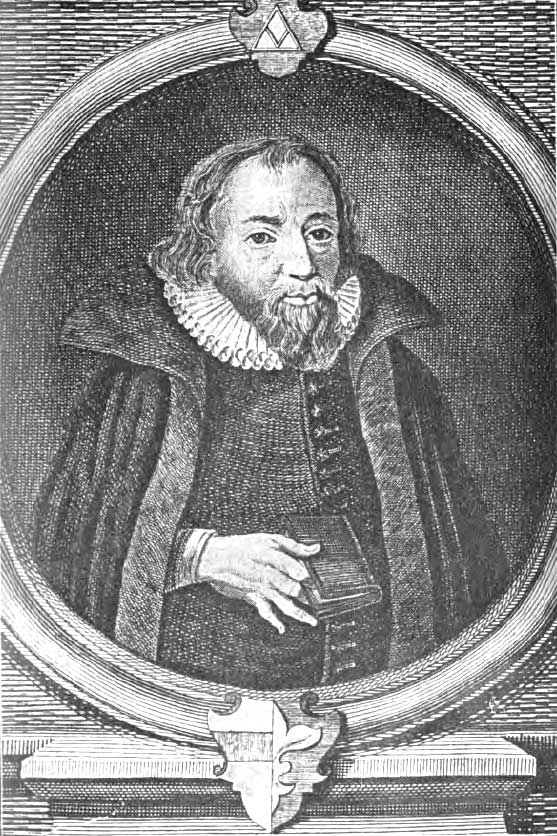 Paul von Eitzen, (1521-1598) german church reformer